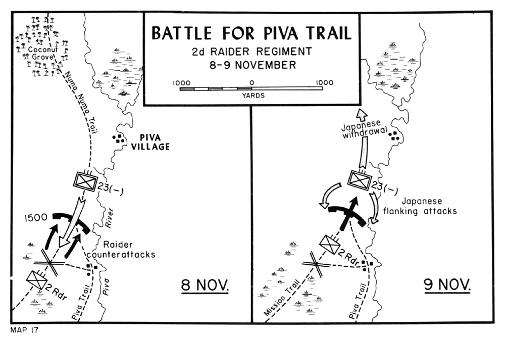 Map depicting the Battle for Piva Trail, 8-9 November 1943